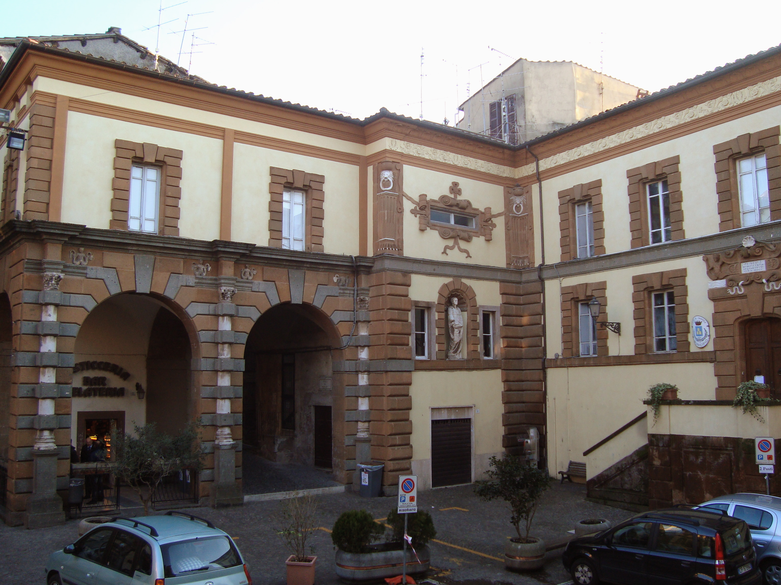 The City Hall of Zagarolo on Piazza Guglielmo Marconi